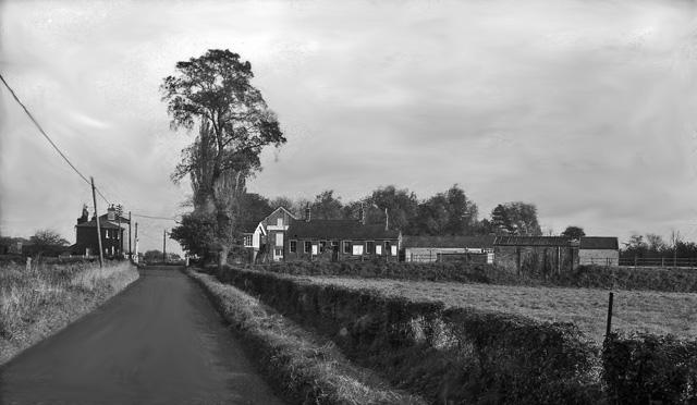 Burston Station, View SE: Norwich left, Ipswich right; ex-Great Eastern, London - Ipswich - Norwich main line. The station was closed 7/11/66 - 10 days after this photograph.